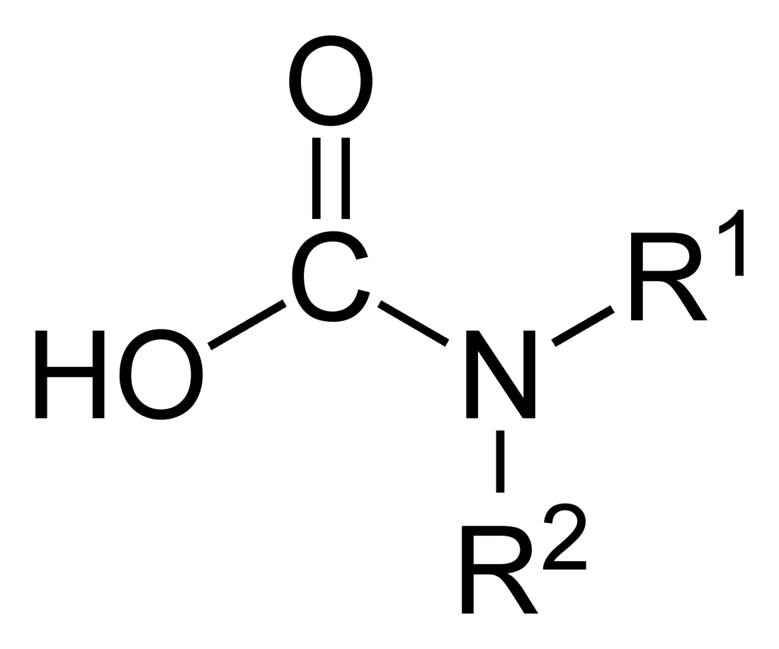 Structural formula of the carbamic acid group, HOCONR2.